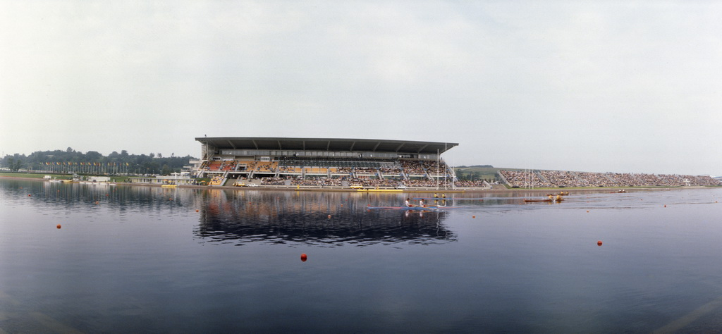 “Rowing canal in Krylatsky”. Rowing canal in Krylatsky during a boat racing competition at the 22nd Summer Olympic Games.